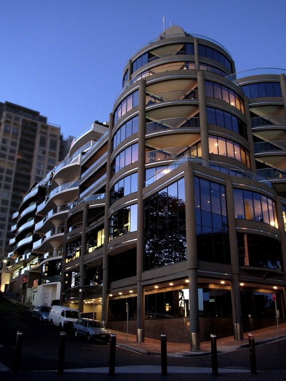 Quadrant Apartments and two adjoining buildings, Milsons Point, New South Wales, Australia. Architect Feiko Bouman (for all three buildings)